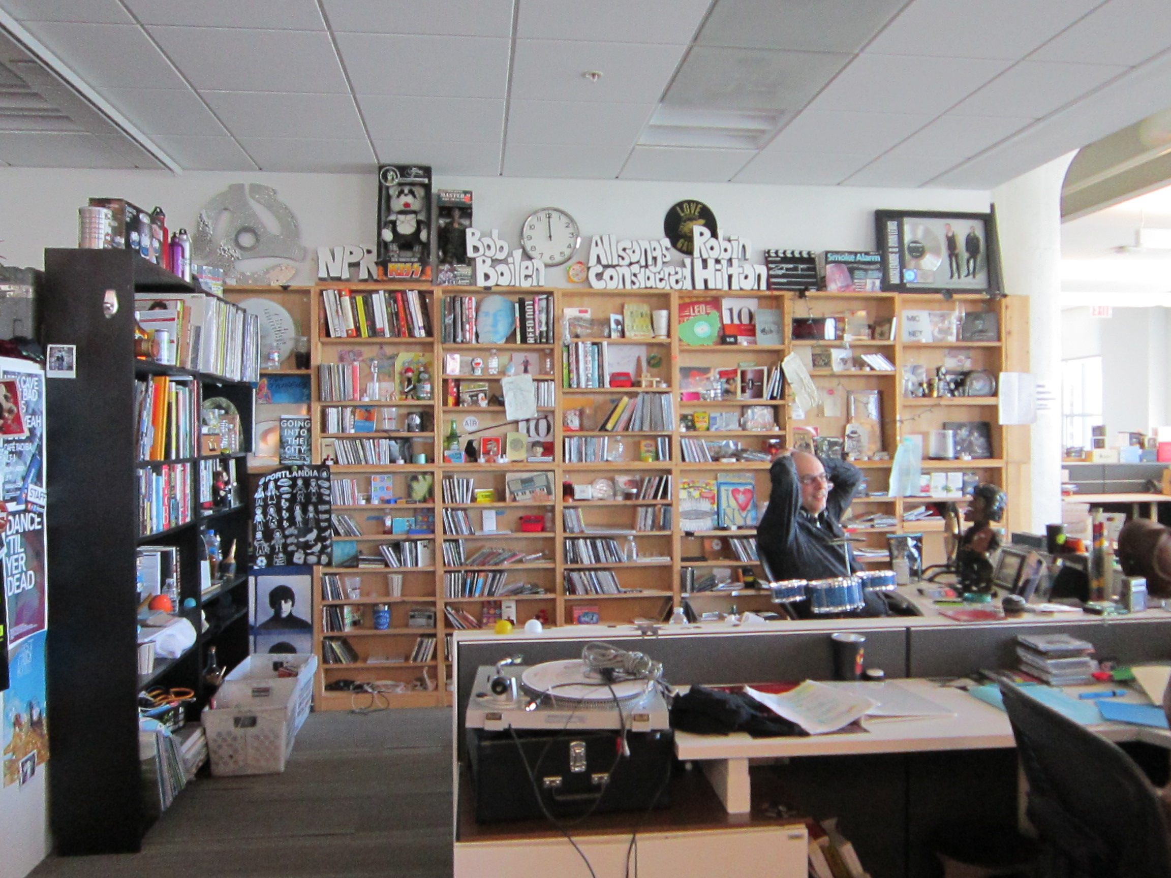 Bob Boilen's desk, where they film the Tiny Desk Concerts